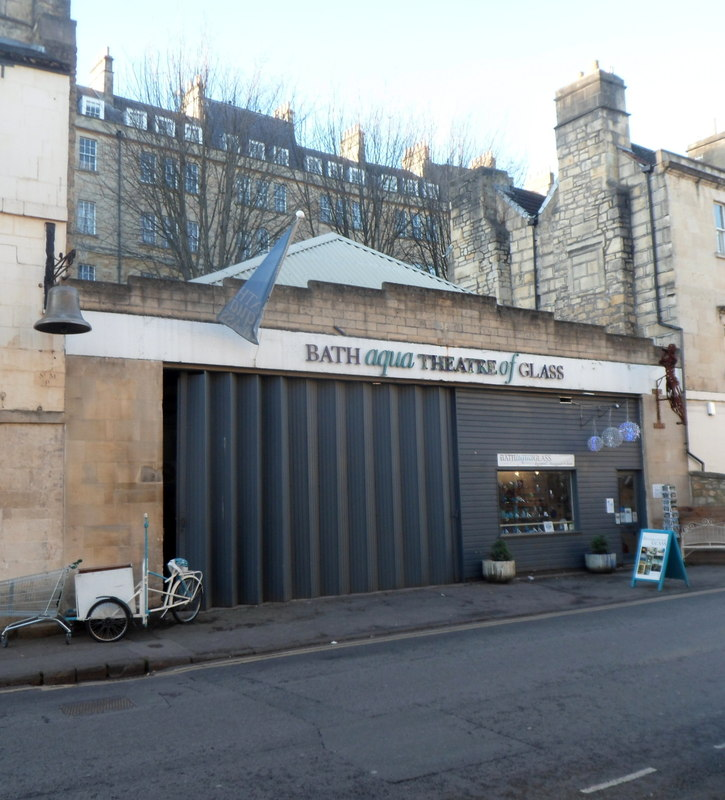 Bath Aqua Theatre Of Glass